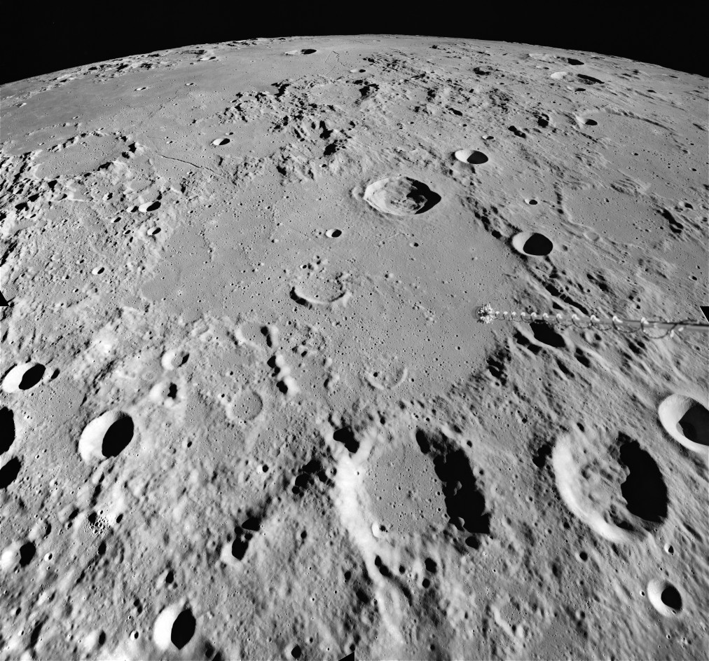 Apollo 16, AS-0839: Oblique picture of the ancient 138 km diameter crater Hipparchus on the moon. The crater is centered near the middle of the image and stretches over half the width of the frame, but is barely visible due to modification over its great age. Much of the modification is due to later impacts and also to radial grooves and ridges from the Imbrium impact known as "Imbrium sculpture." Near the horizon at left is Sinus Medii and the crater within Hipparchus above and right of center is Horrocks, 30 km in diameter. North is up.